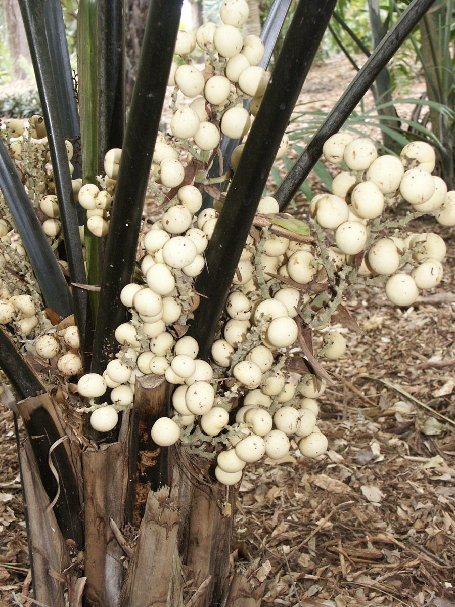 cultivated, Fairchild Tropical Botanic Garden, Miami, Florida, USA.